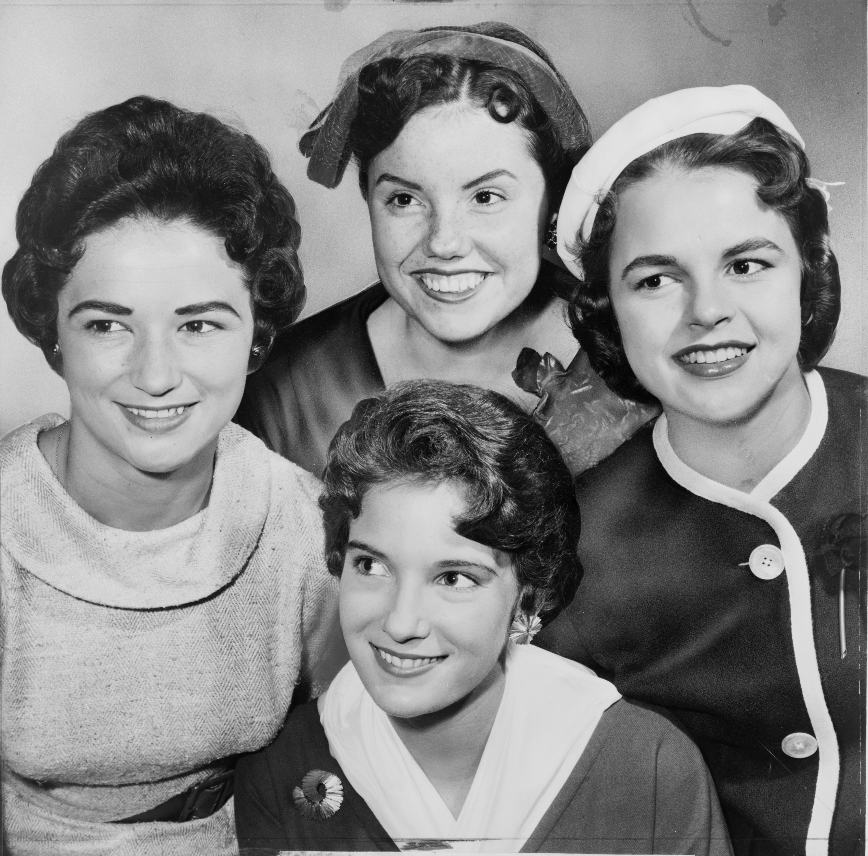 Four Miss America candidates: Jacque Baker (Miss Iowa), Linda(?) Mead (Miss Mississippi), Sharon O'Neal (Miss Kansas), Suzie Jackson (Miss Arkansas) / World-Telegram & Sun photo by Al Ravenna.